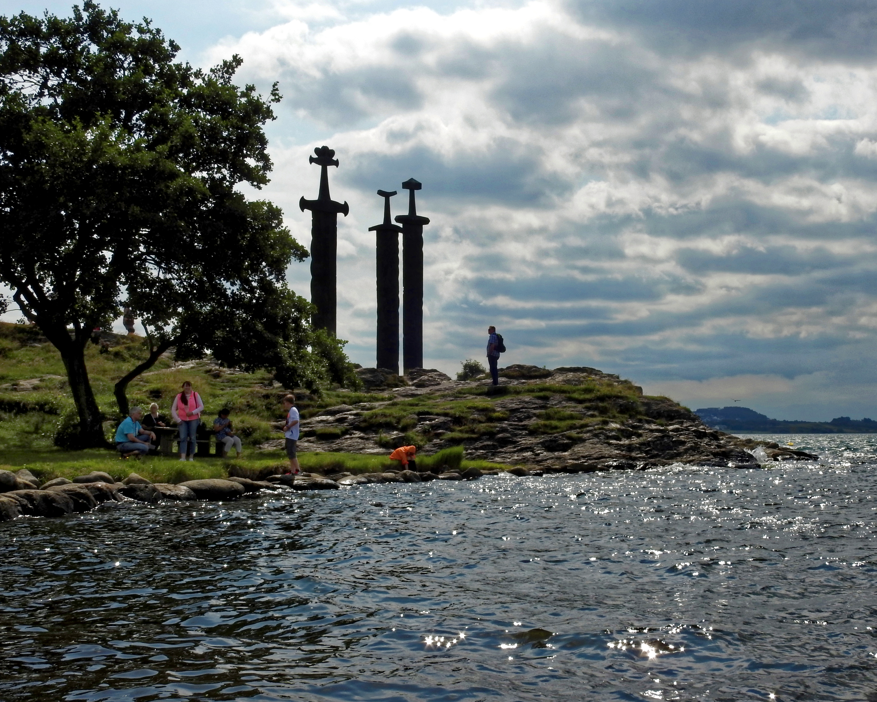 The swords in rock in Stavanger, Norway.